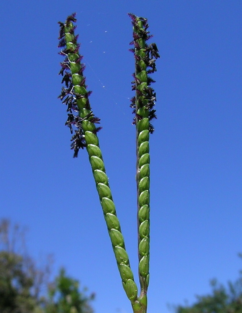 Flowerheads are mostly digitate with 2 (occasionally 3) rather rigid branches 5-12 cm long that turn black when anthers and stigmas are out